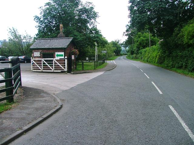 Old Railway Company Hut, Potto Station. The station yard is now used by an haulage company.